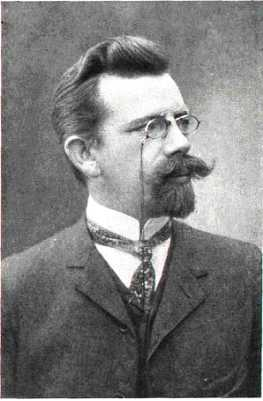 Adolph Eichler